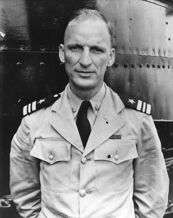 Lieutenant Commander Mannert Lincoln Abele on board a submarine, circa early 1940s.